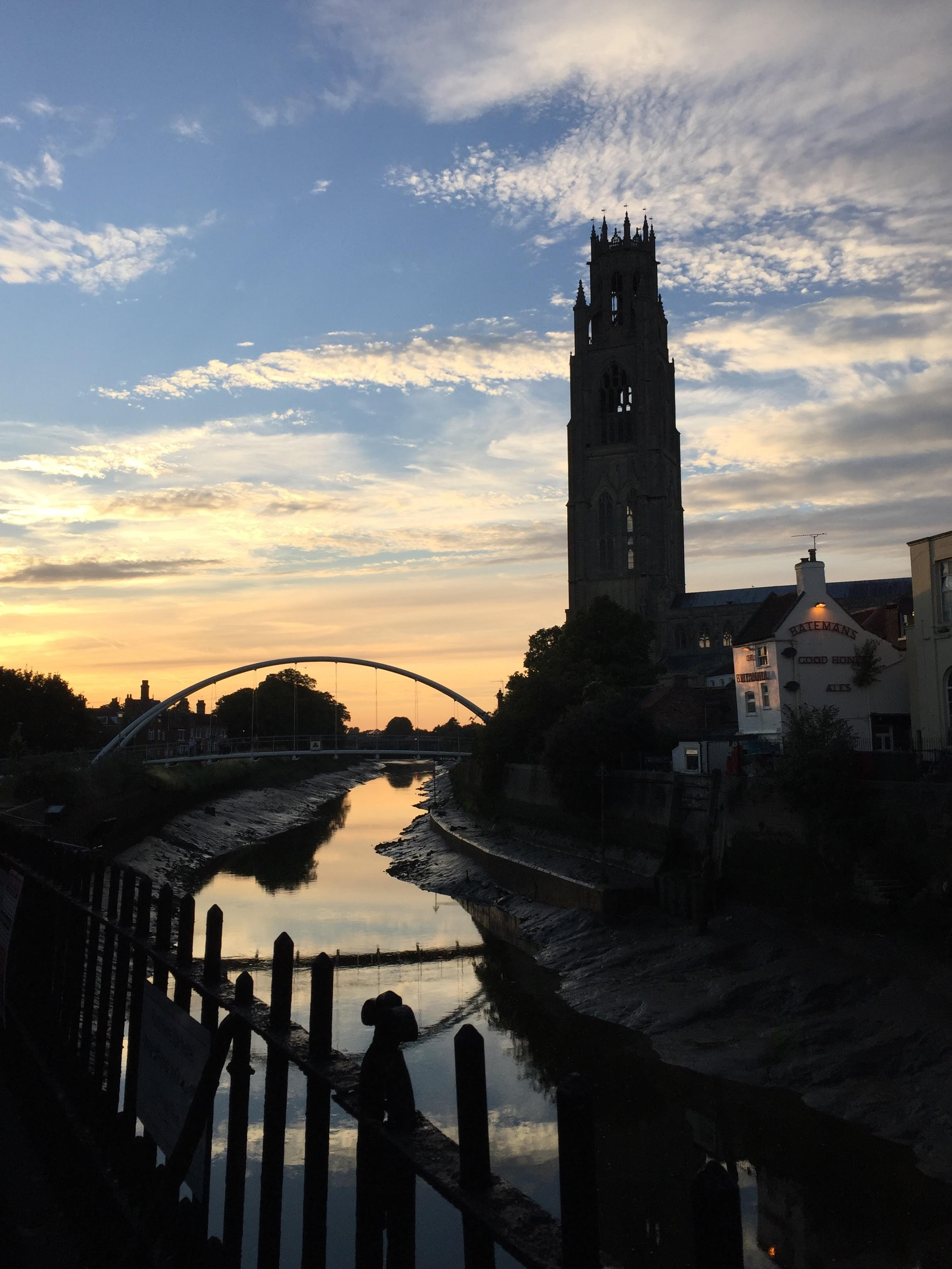 Boston (Lincolnshire) as the sun sets near The Stump